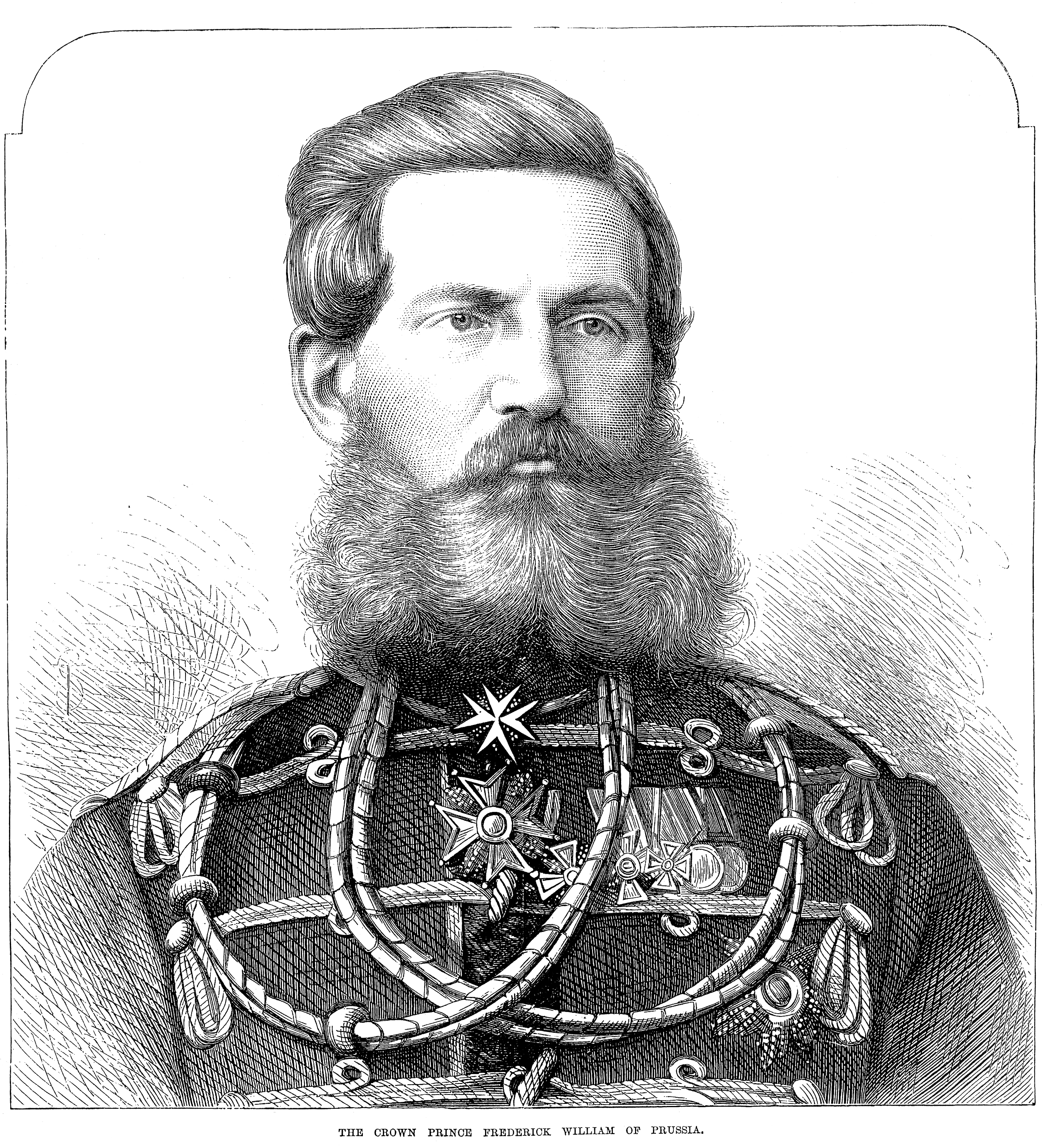 Crown Prince Frederick William of Prussia, 1870. From a portrait taken in St. Petersburg. For full page, including description, see Image:Crown Prince Frederick William of Prussia - Illustrated London News August 20, 1870.PNG